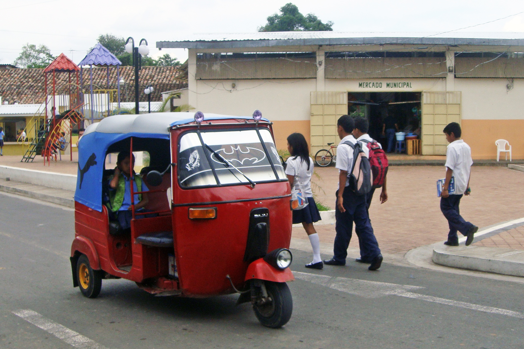 Bajaj mototaxi in El Salvador